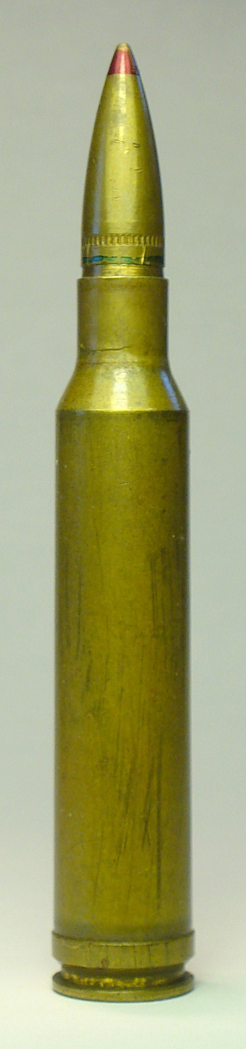 side view of a .308 Norma Magnum rifle cartridge